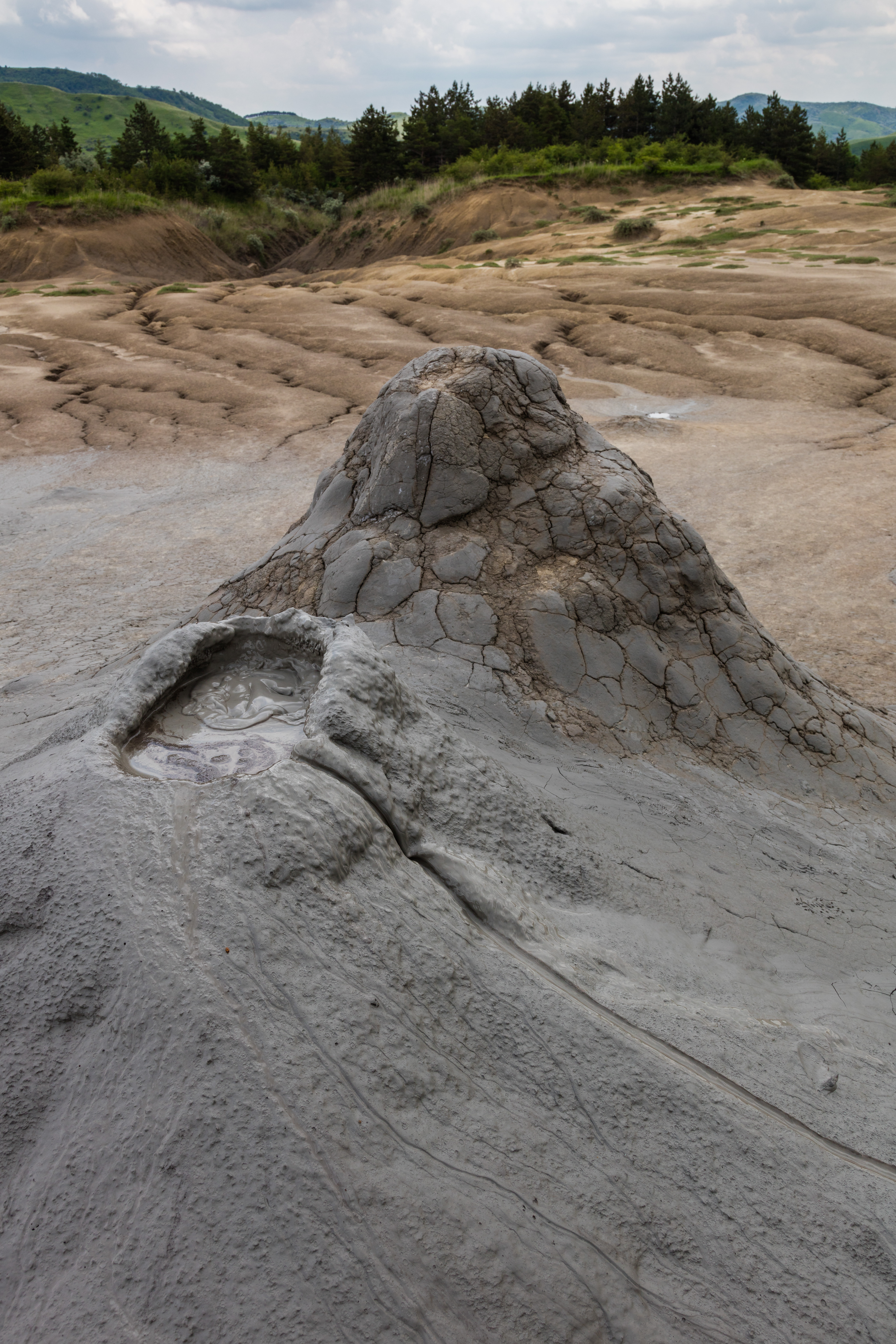 Mud volcanoes, Buzau, Romania